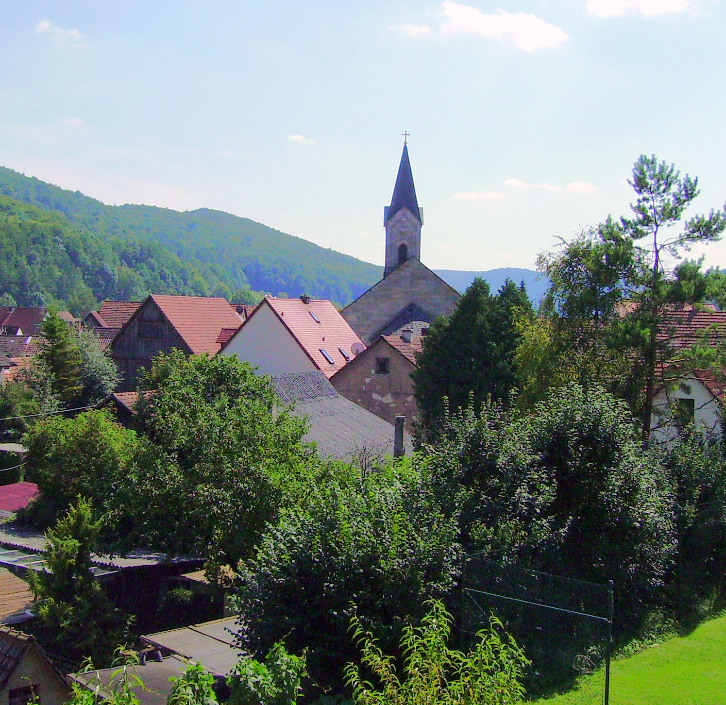 Description: Unterleinleiter in (Franconia) Source: own photography Date: August 2005 Author: --Immanuel Giel 11:39, 13 September 2005 (UTC) Other versions: none